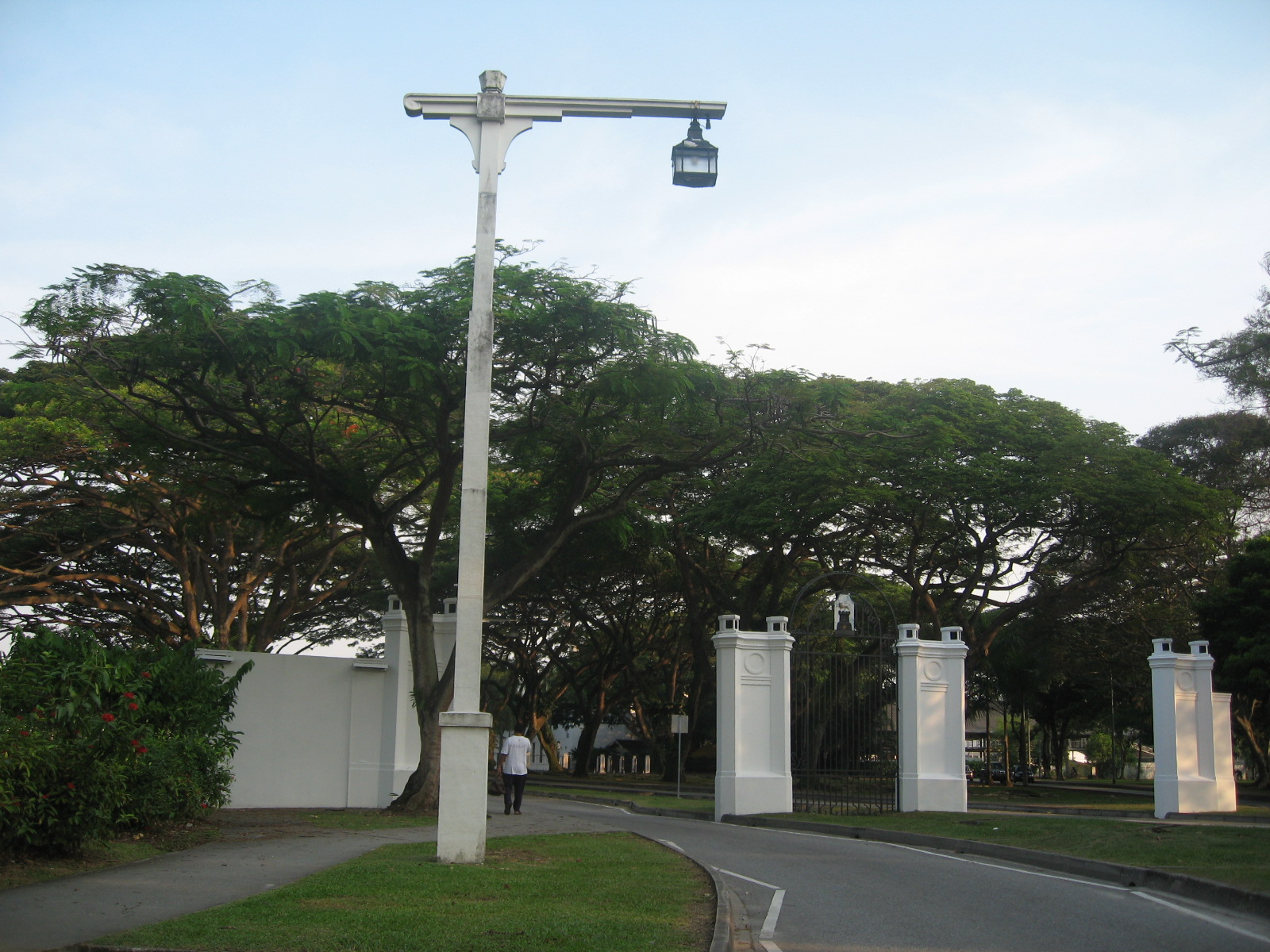 Gates to the old Kallang Airport.